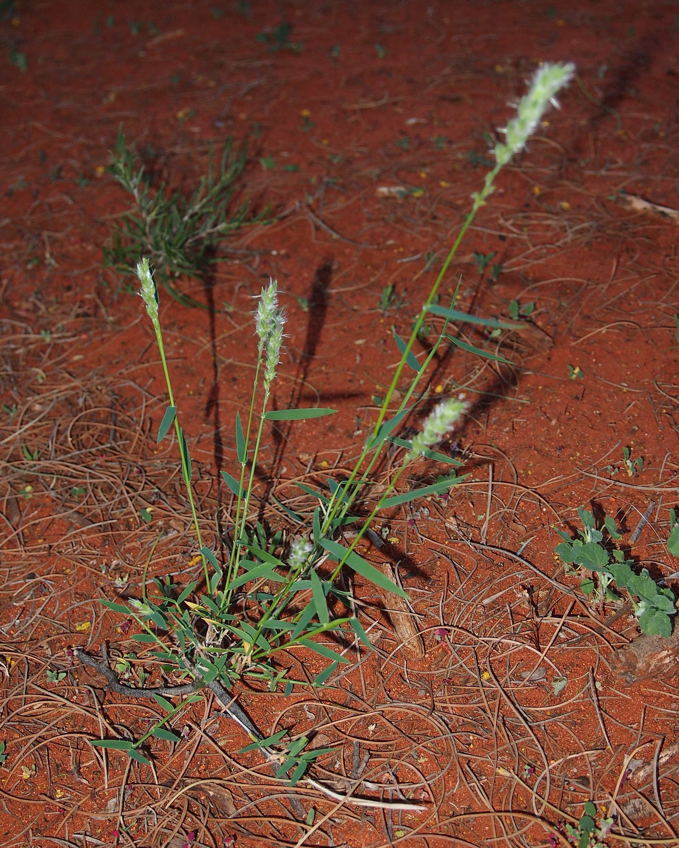 Thyridolepis mitchelliana habit